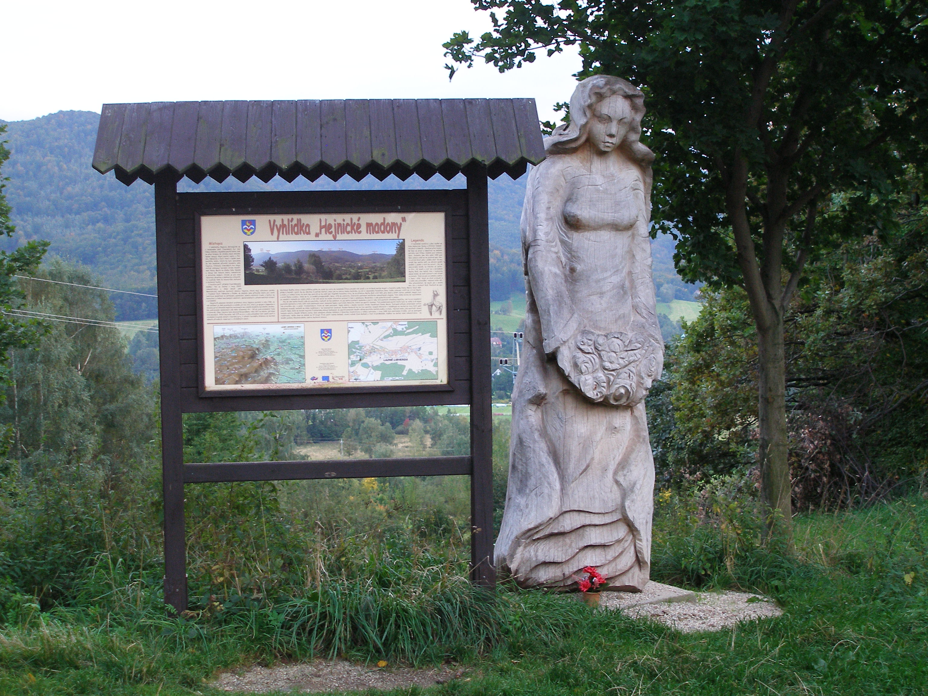 Vyhlídky nad Libverdou, Vyhlídka Hejnické madony (all view)